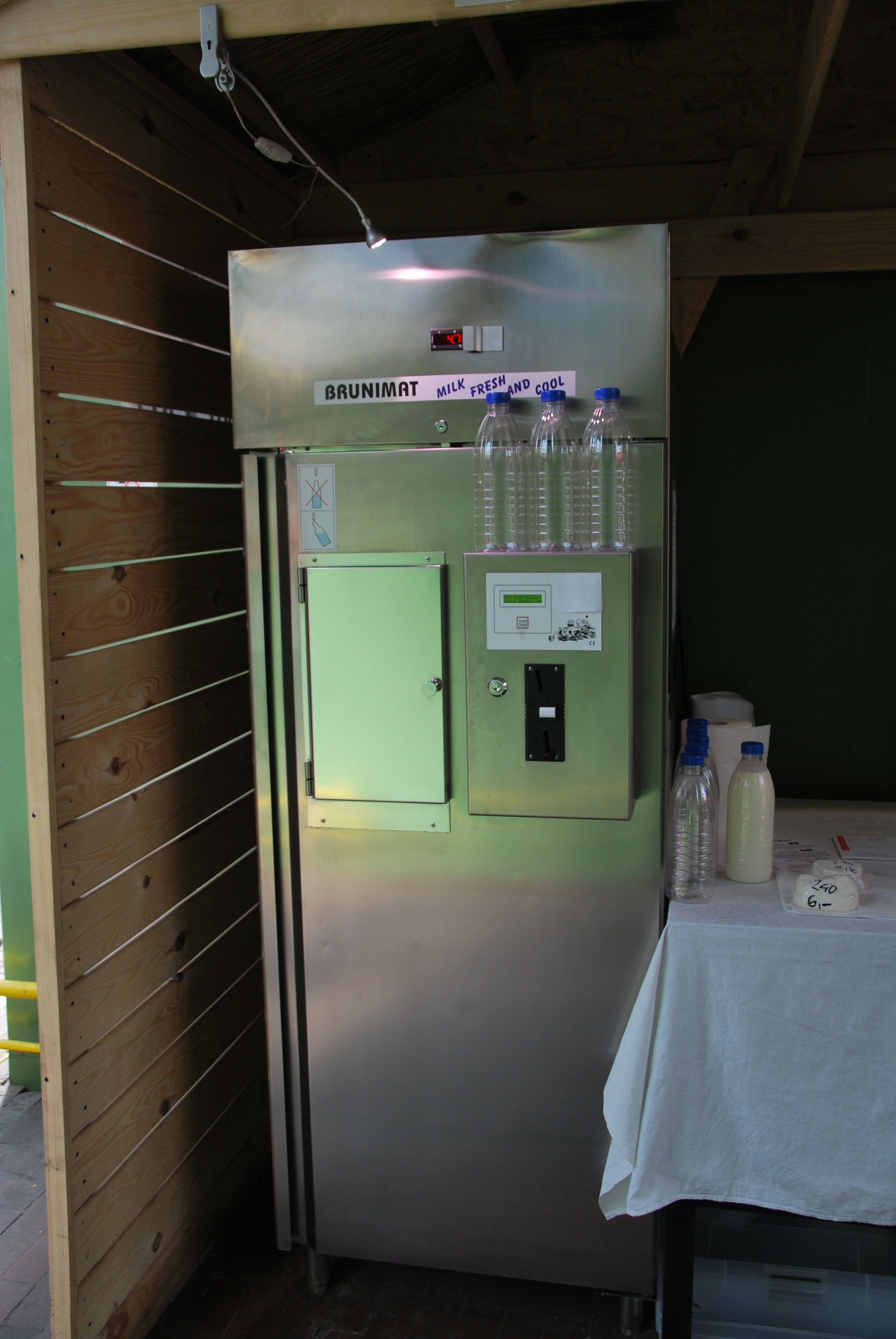 Milkomat, Łódź Barlickiego Sq.